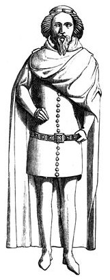 Lionel of Antwerp, duke of Clarence